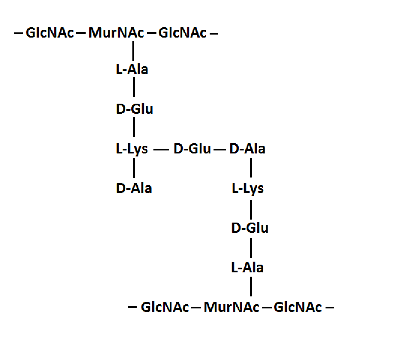 Peptidoglycan type L-Lys-D-Glu (A4α)